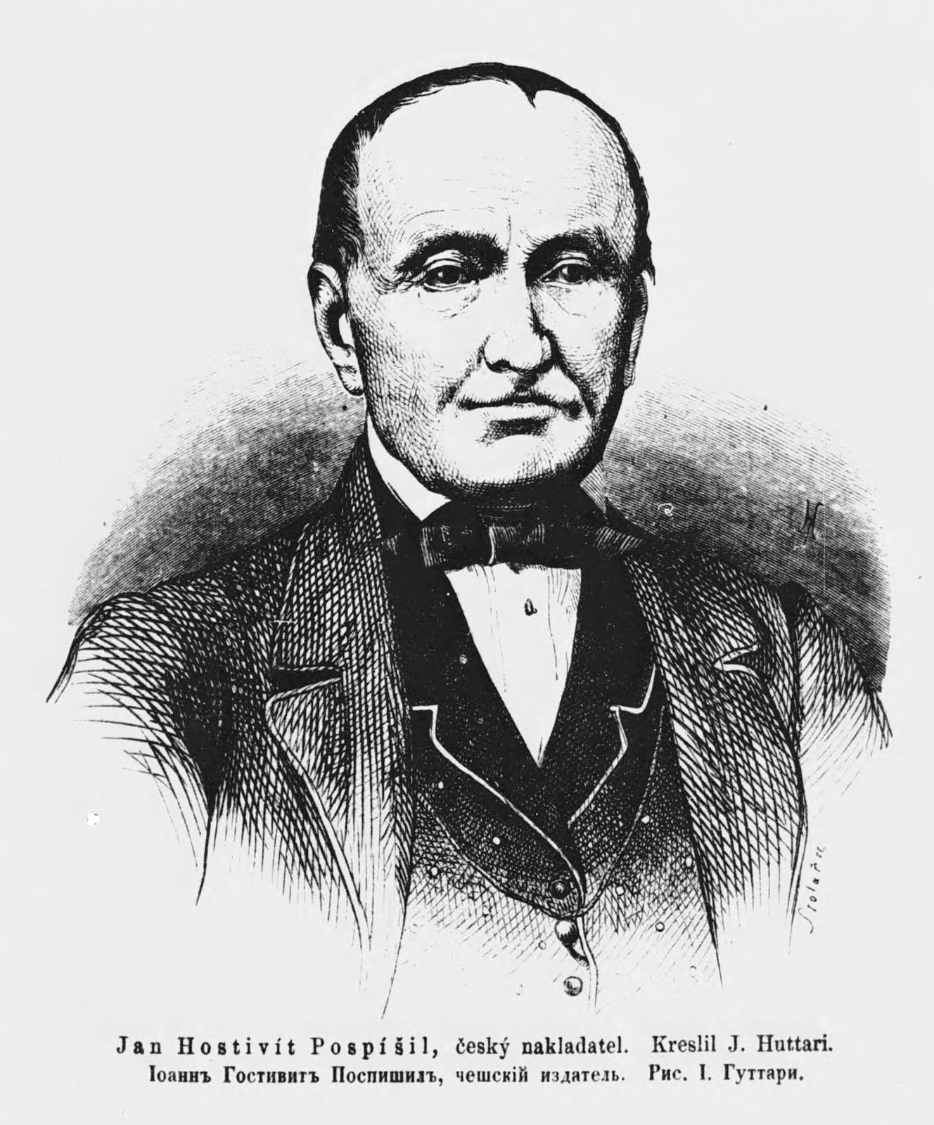 Portrait of Jan Hostivít Pospíšil (1785-1868), Czech publisher and bookseller from Hradec Králové.